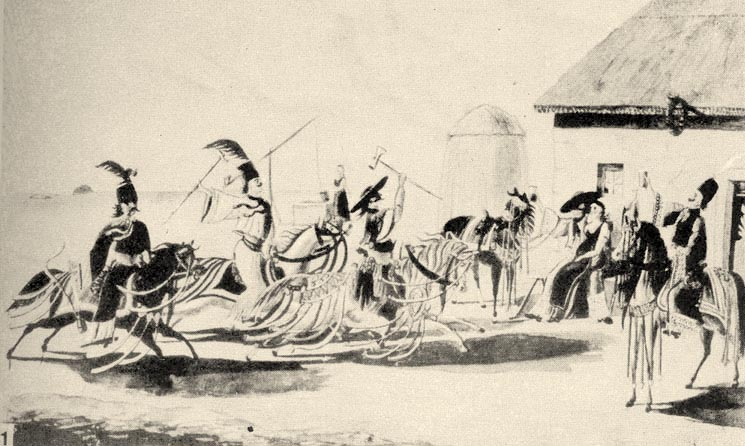 Betyár's meeting